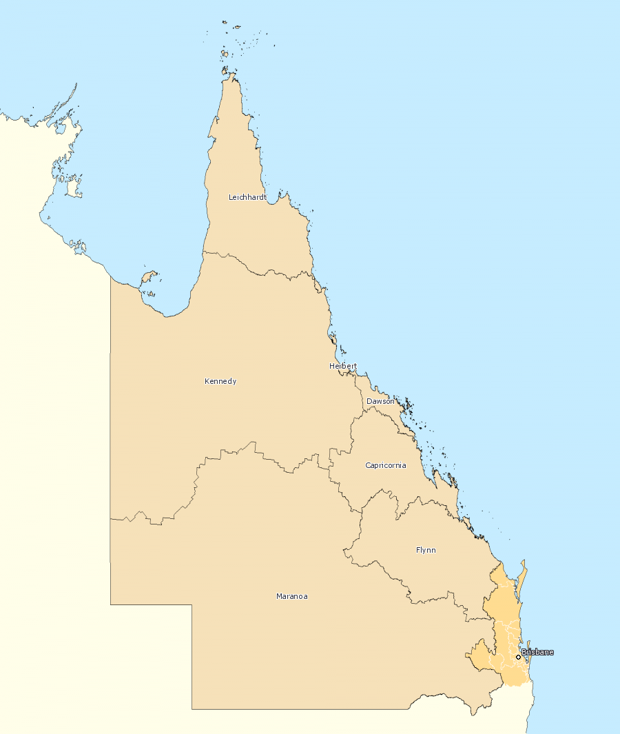 This image incorporates data that is: © Commonwealth of Australia (Australian Electoral Commission) 2009 Rest of Queensland divisions overview 2010